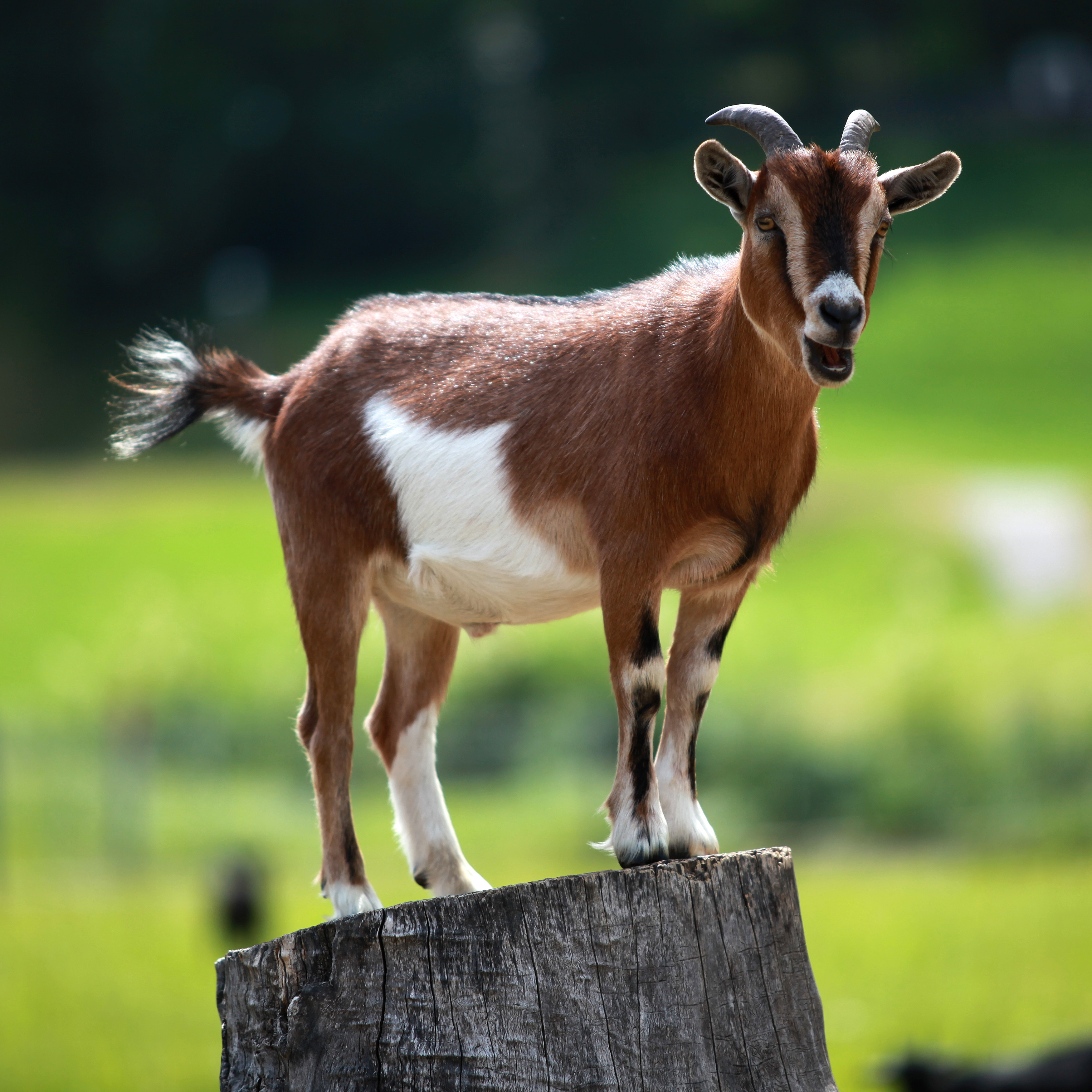 Goat, located in Fiesch, Valais (Switzerland).